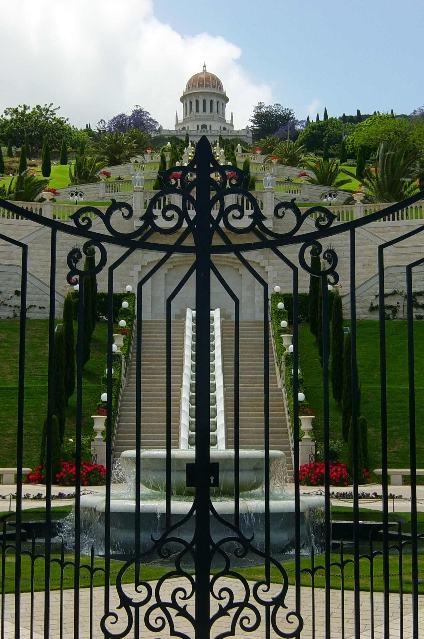 Terraces leading to Shrine of the Báb